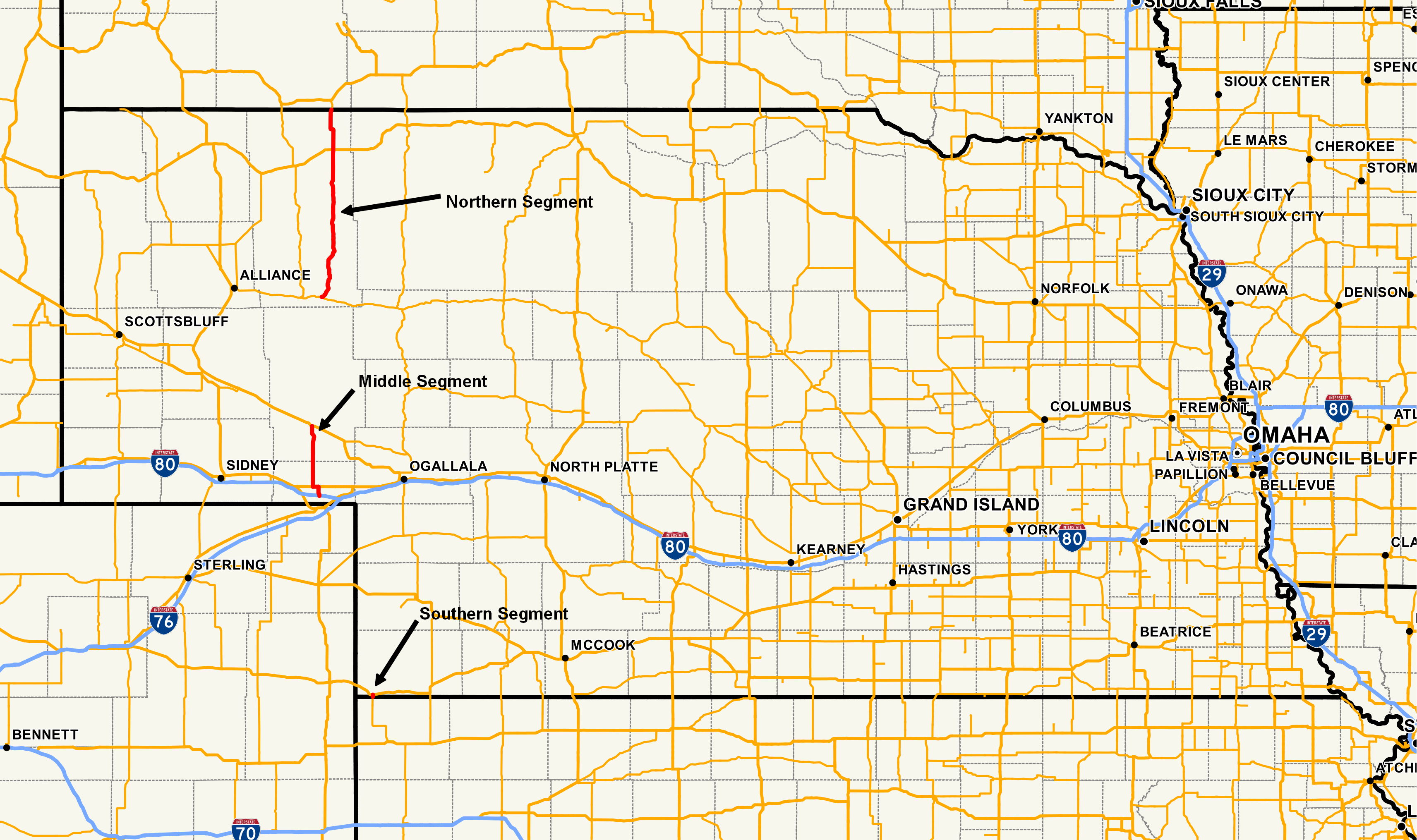 Map of Nebraska Highway 27 Data Sources: Nebraska Highways - - Dec 2016 Nebraska County Boundaries - - Dec 2016 Nebraska City Boundaries - - Dec 2016 This PNG graphic was created with QGIS